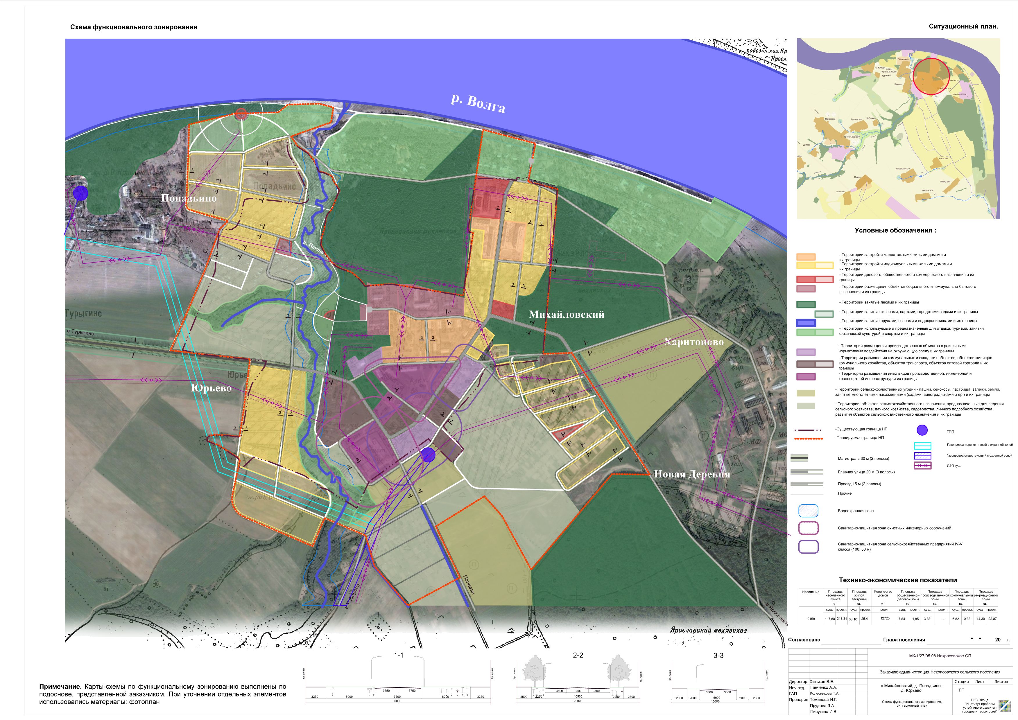 Zoning of Mikhailovskiy. Nekrasovskoe rural settlement (Yaroslavl District) 2008